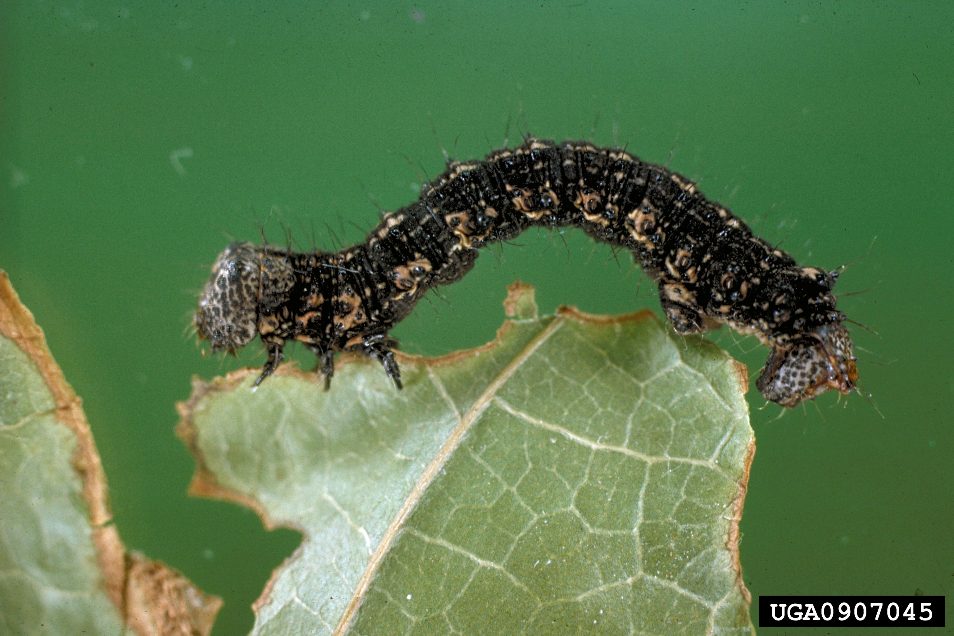 Phigalia titea larva